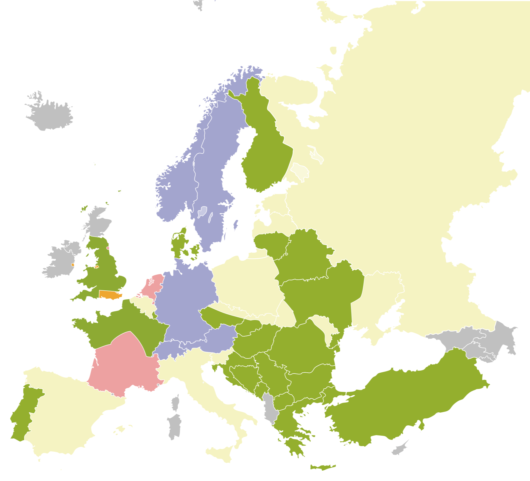 Map of railway electrification systems in Europe 750 V DC 1,5 kV DC 3 kV DC 15 kV, 16,7 Hz AC 25 kV, 50 Hz AC non-electrified